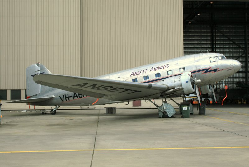 This Douglas DC-3-232A was originally built for Australian National Airways in mid-1938 and is among the oldest DC-3s extant. It is kept in airworthy condition and is seen here at its base at Melbourne Airport in Australia. It has more than 68,000 hours (or more than seven years and eight months) flying time.